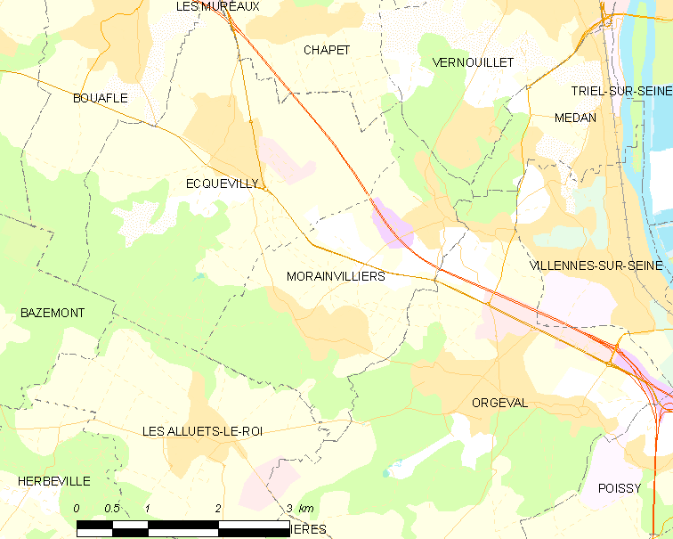 Map of French municipality Morainvilliers